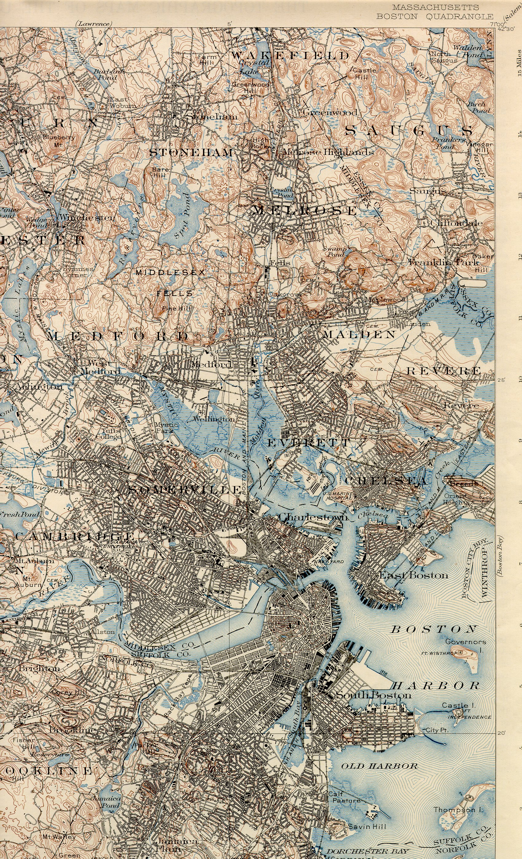 Map of Mystic River (Massachusetts) and environs.